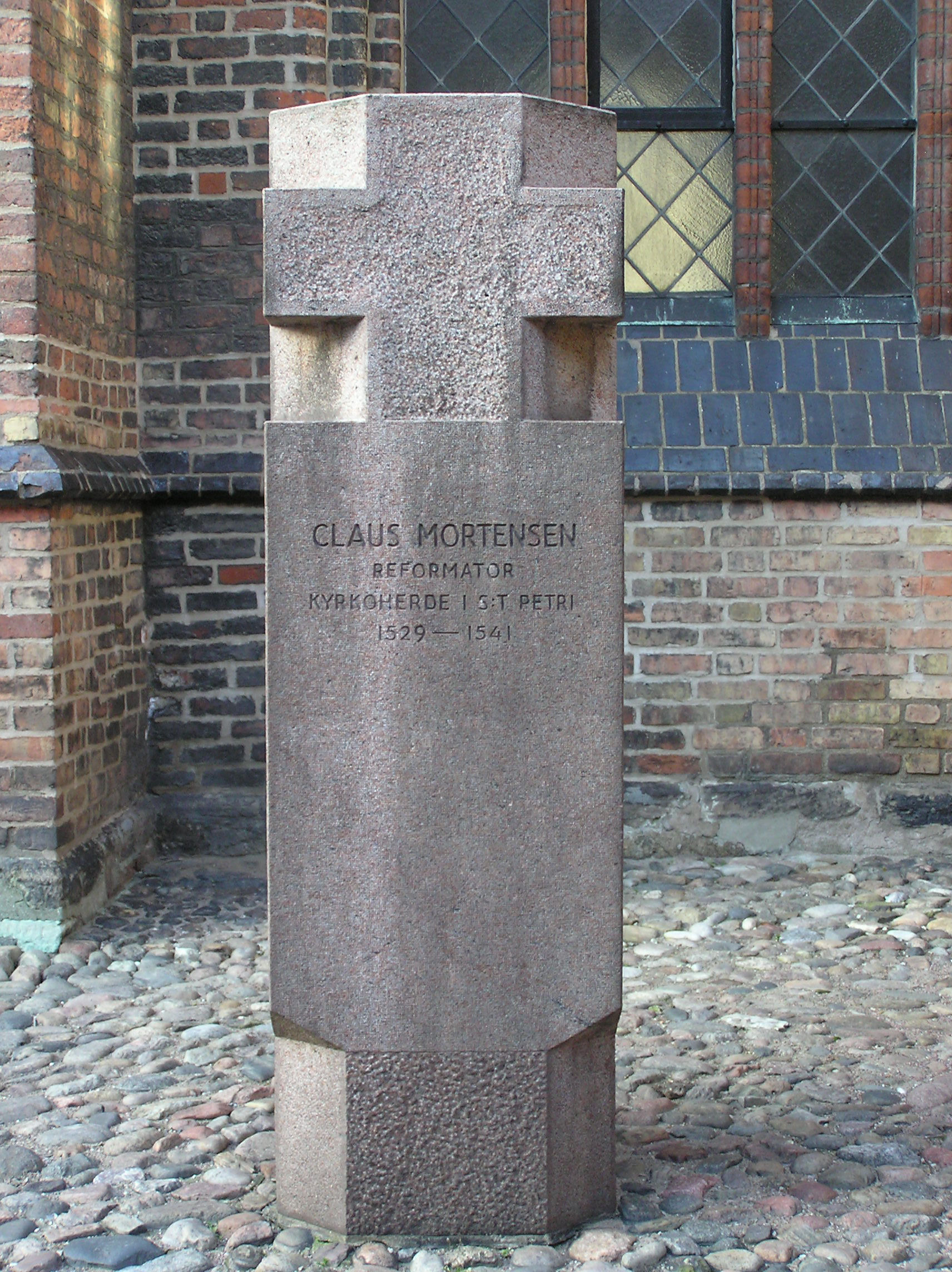 Memorial for Claus Mortensen Tøndebinder, Danish reformator (outside Sankt Petri Church, Malmö) “ Claus Mortensen Reformator Kyrkoherde i S:t. Petri 1529-1541 ”